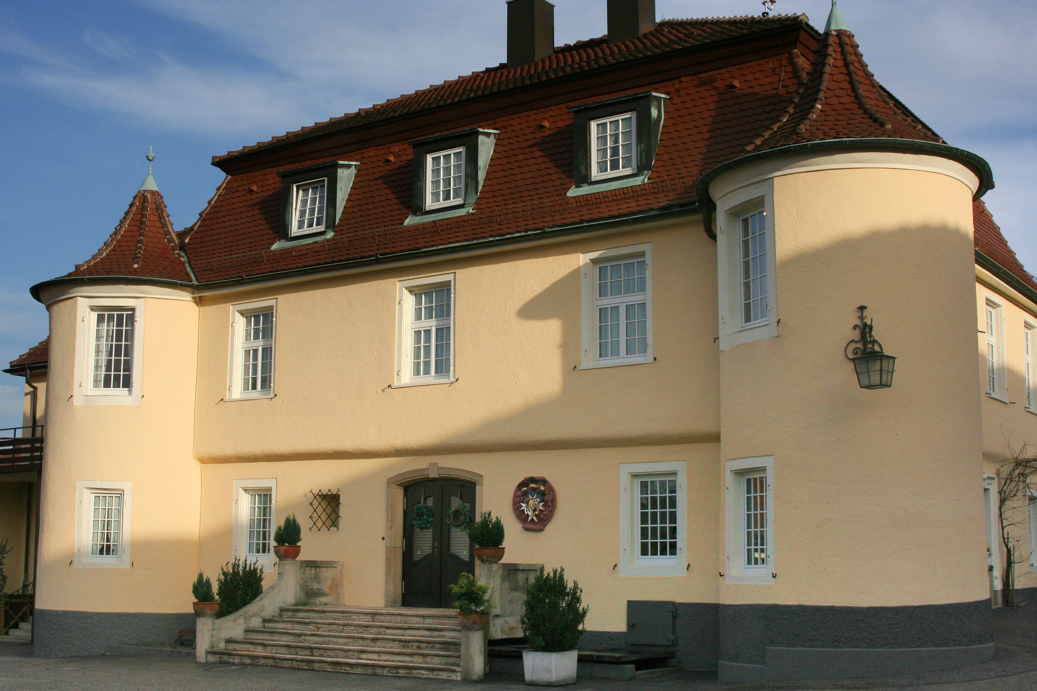 The so-called castle in Obersulm-Affaltrach